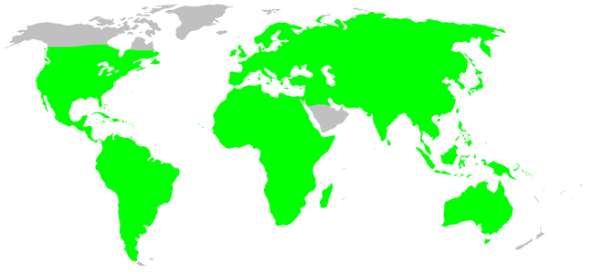 Tetragnatidae habitat distribution, drawn after Platnick: World Spider Catalog 7.0. This is not a precise rendering of the distribution! If you have better information, please replace this map, or send me the info, and i will redraw it.